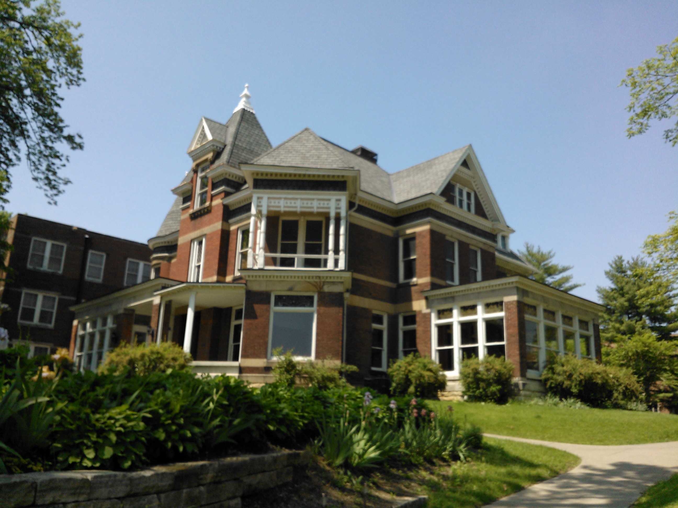 The Max Petersen House is located on the former Marycrest College campus in Davenport, Iowa. The view is from the southeast. It is listed on the National Register of Historic Places.